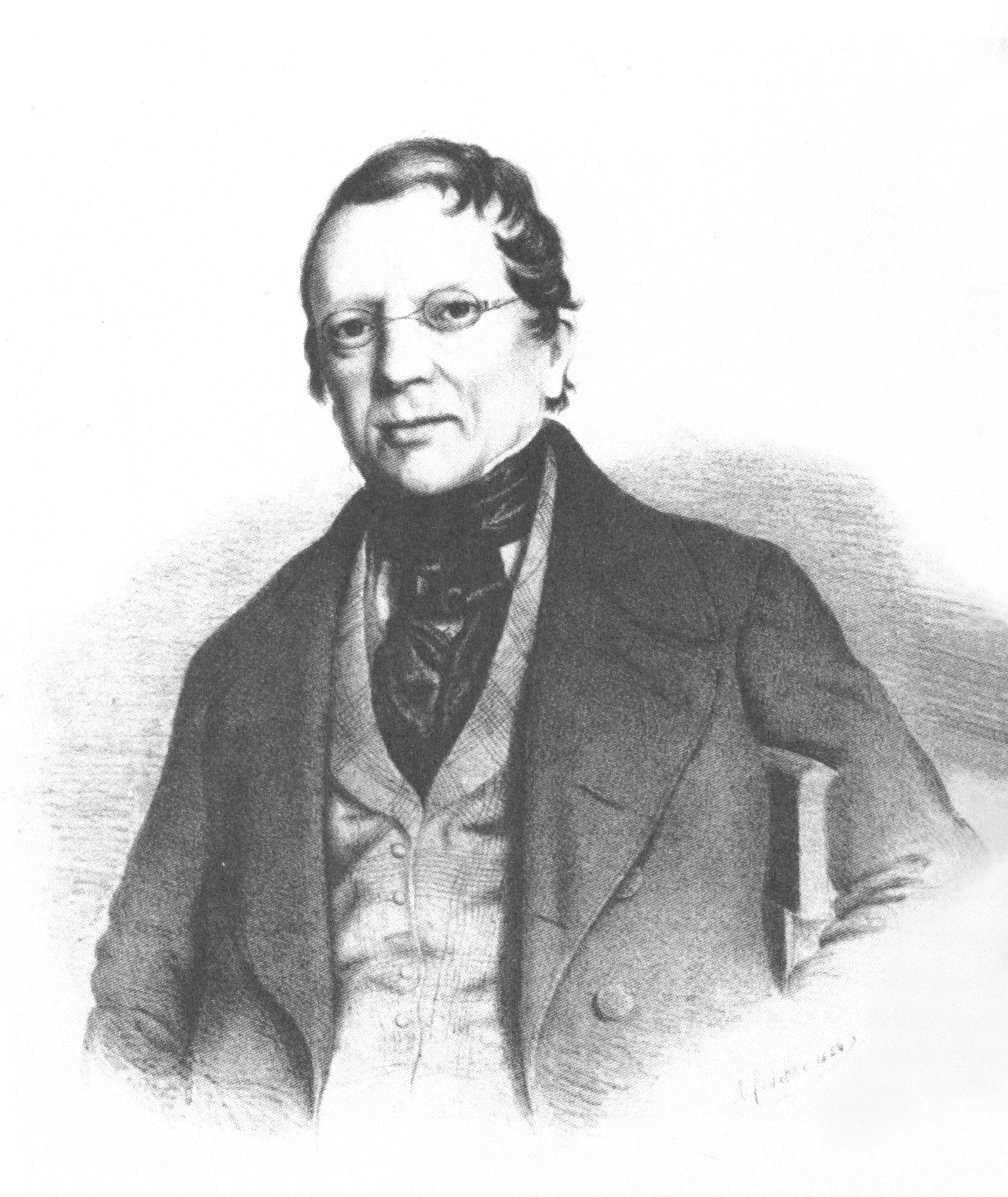 Carl Julius Abel (railway engineer of Württemberg).